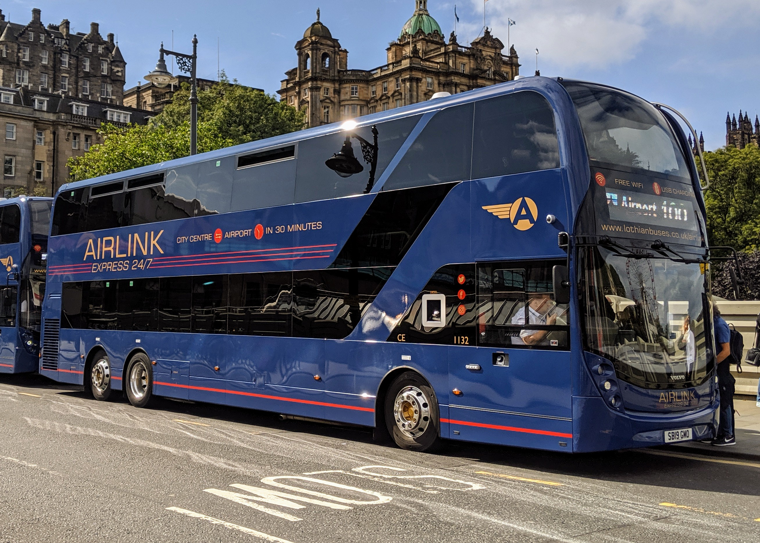 Seen on Waverley Bridge 29/8/19